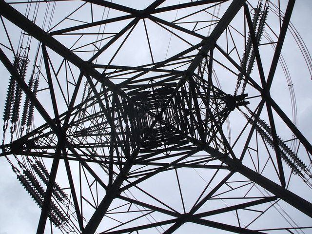 Pylon Inner Structure. Viewed straight up.